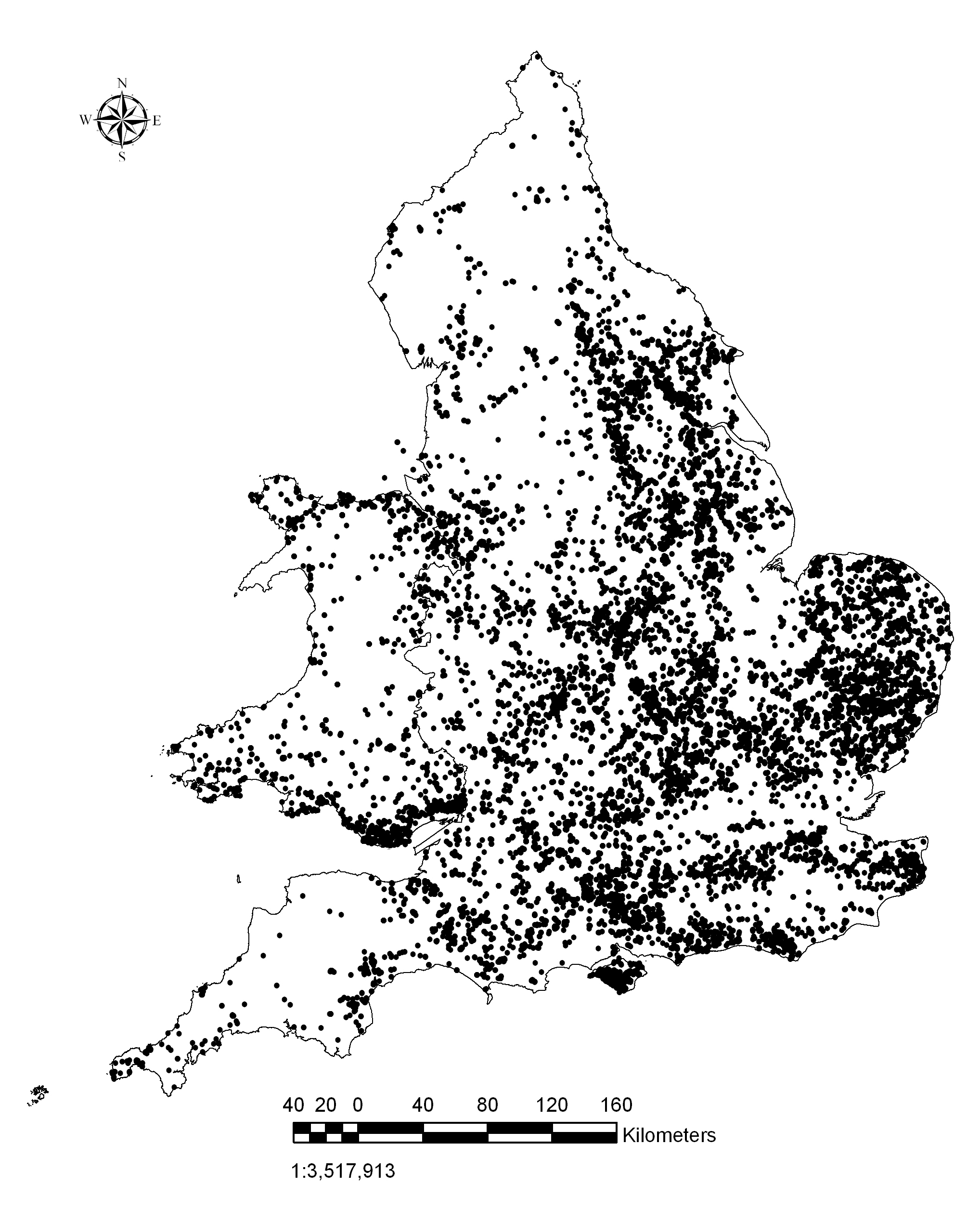 All Roman coin findspots 1997-2010 This was added from the site called under the name portableantiquities. See source for details.